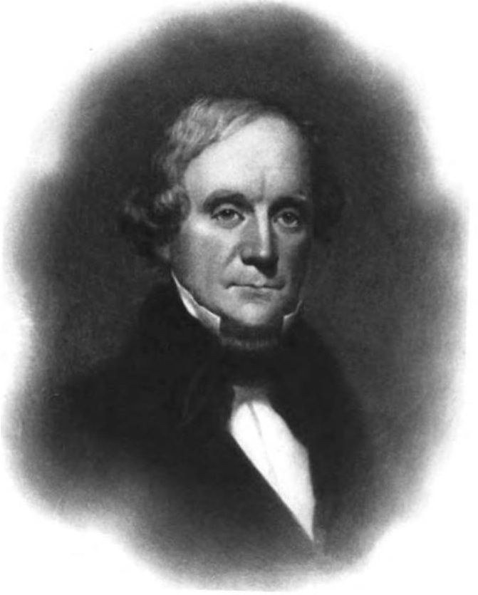 Augustus C. French, Gov. of Illinois 1846-53